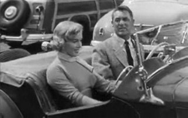 Cropped screenshot of Marilyn Monroe and Cary Grant from the trailer for the film Monkey Business